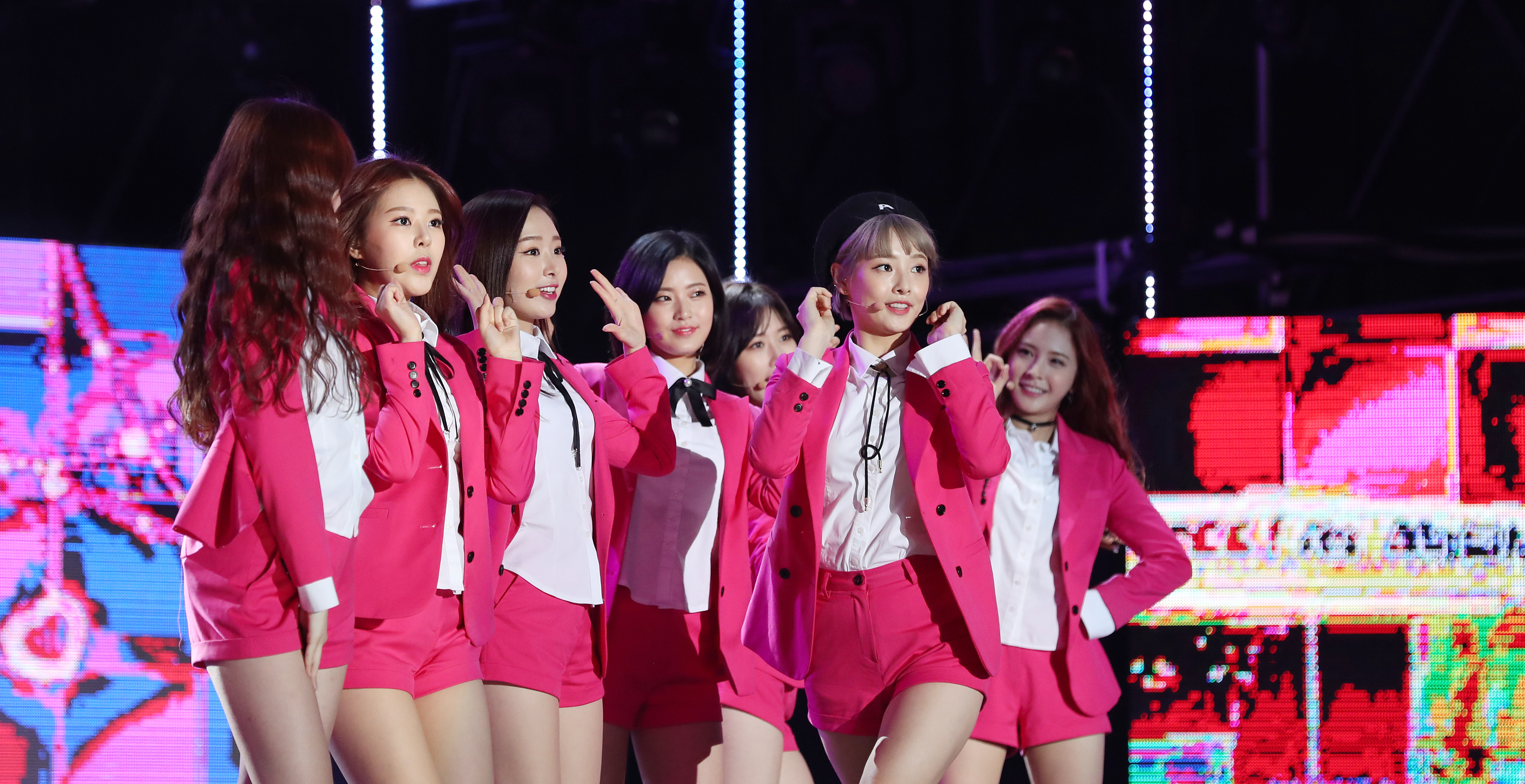 Korea Sale Festa Opening Ceremony SONAMOO September 30, 2016 Yeongdongdae-ro, Gangnam-gu, Seoul Ministry of Culture, Sports and Tourism Korean Culture and Information Service ( Official Photographer : Jeon Han